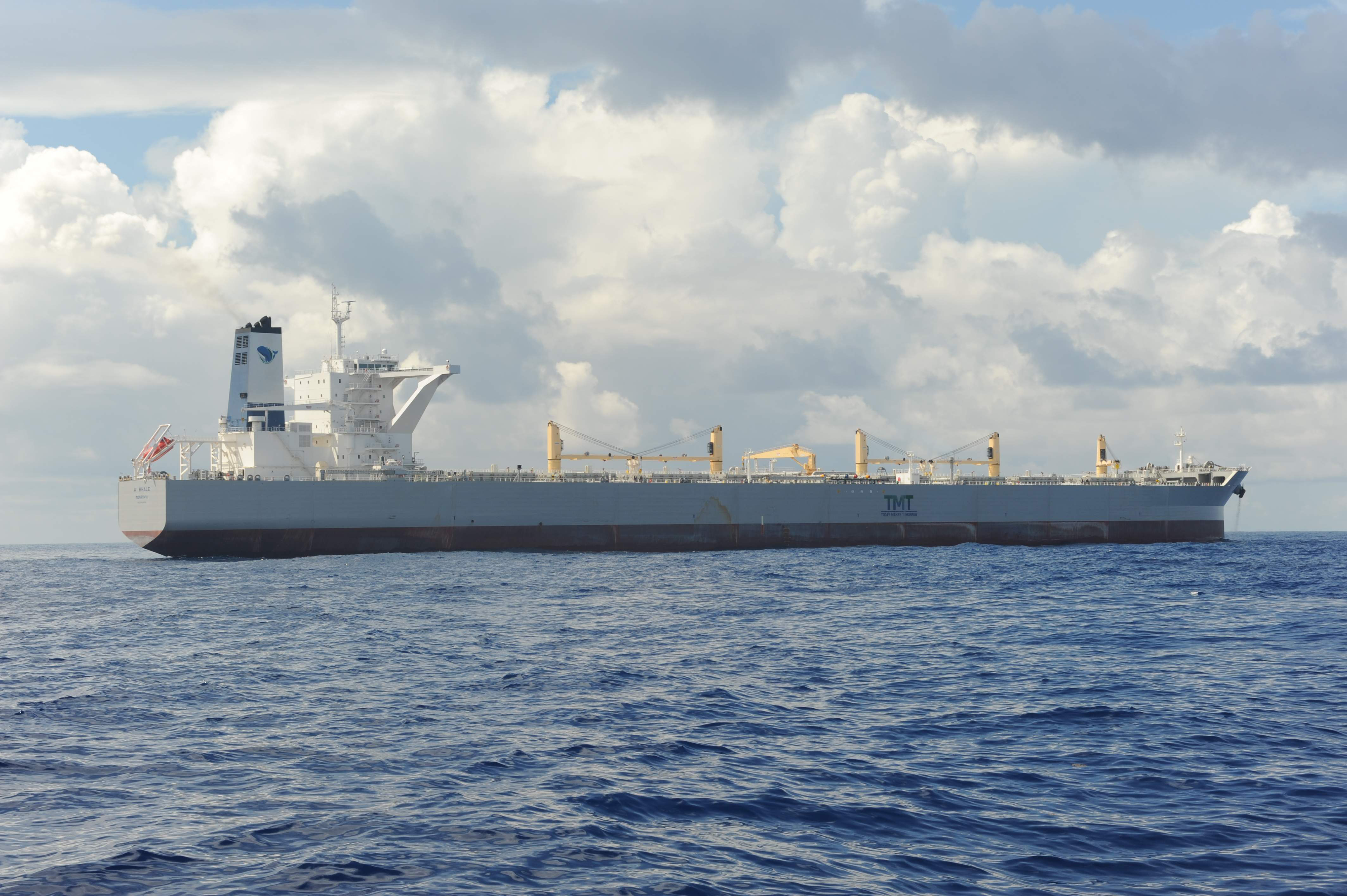 A Whale conducts a test of its oil skimming capabilities on open water as part of the Deepwater Horizon response July 4, 2010. The converted tanker ship is being evaluated on the effectiveness of its untested oil recovery systems. The ship was recently converted in Lisbon, Portugal in June with the hope that it could dramatically increase the amount of oil collected on the surface from the BP oil spill.